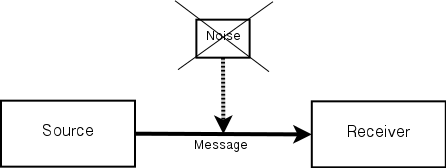 Noiseless channel.